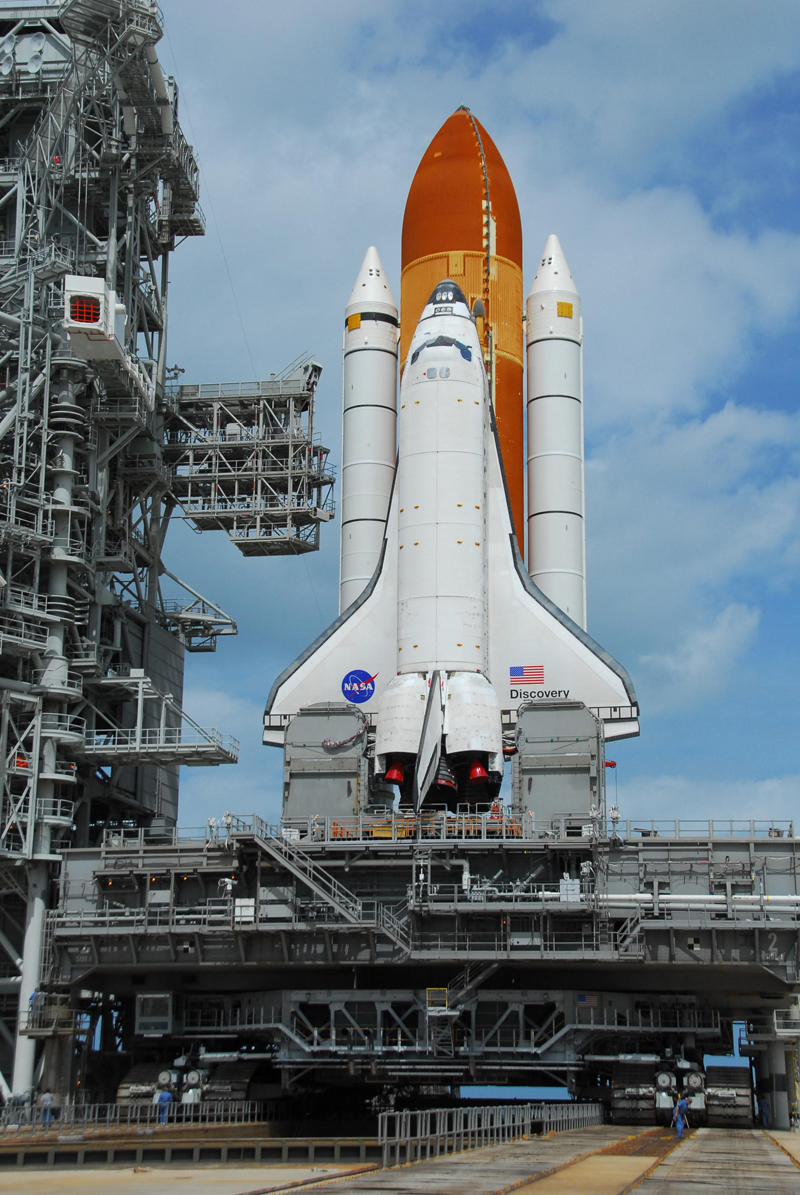 Access platforms at Launch Pad 39A are moved into position against Space Shuttle Discovery atop a mobile launch platform. Discovery arrived at its seaside launch pad around noon and was hard down at 1:15 p.m. First motion out of the Vehicle Assembly Building was at 6:47 a.m. EDT. Rollout is a milestone for Discovery's launch to the International Space Station on mission STS-120, targeted for Oct. 23. The crew will be delivering and installing the Italian-built U.S. Node 2, named Harmony. The pressurized module will act as an internal connecting port and passageway to additional international science labs and cargo spacecraft. In addition to increasing the living and working space inside the station, it also will serve as a work platform outside for the station's robotic arm.